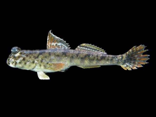 Periophthalmus argentilineatus photograhed in Kampuan mangrove forest at Amphoe Suksamran, Ranong province, southern Thailand